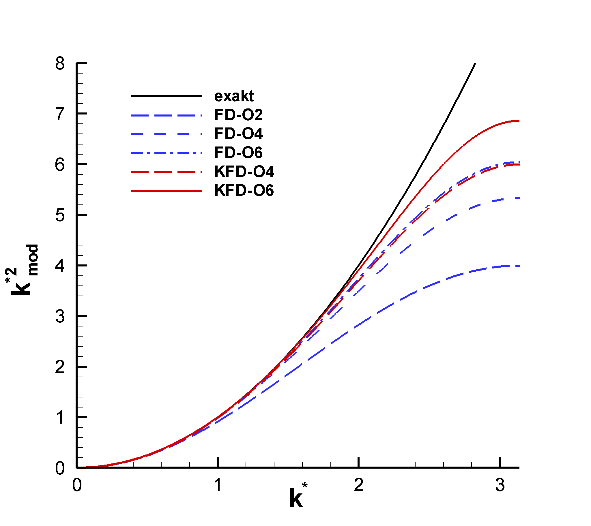 Modified wave-number square for finite differences, 2nd derivative